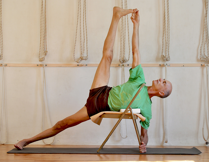 Eyal Shifroni demonstrates Vasisthasana posture with props.